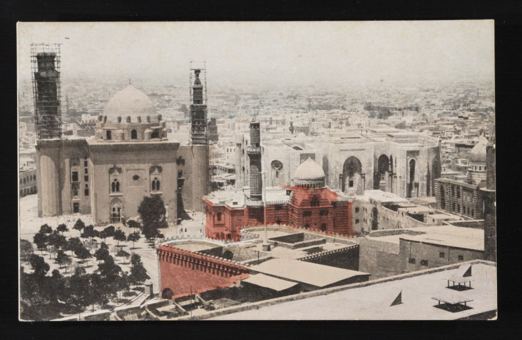 Tinted red and pink photo of an aerial view of the city with a large domed citadel on the left